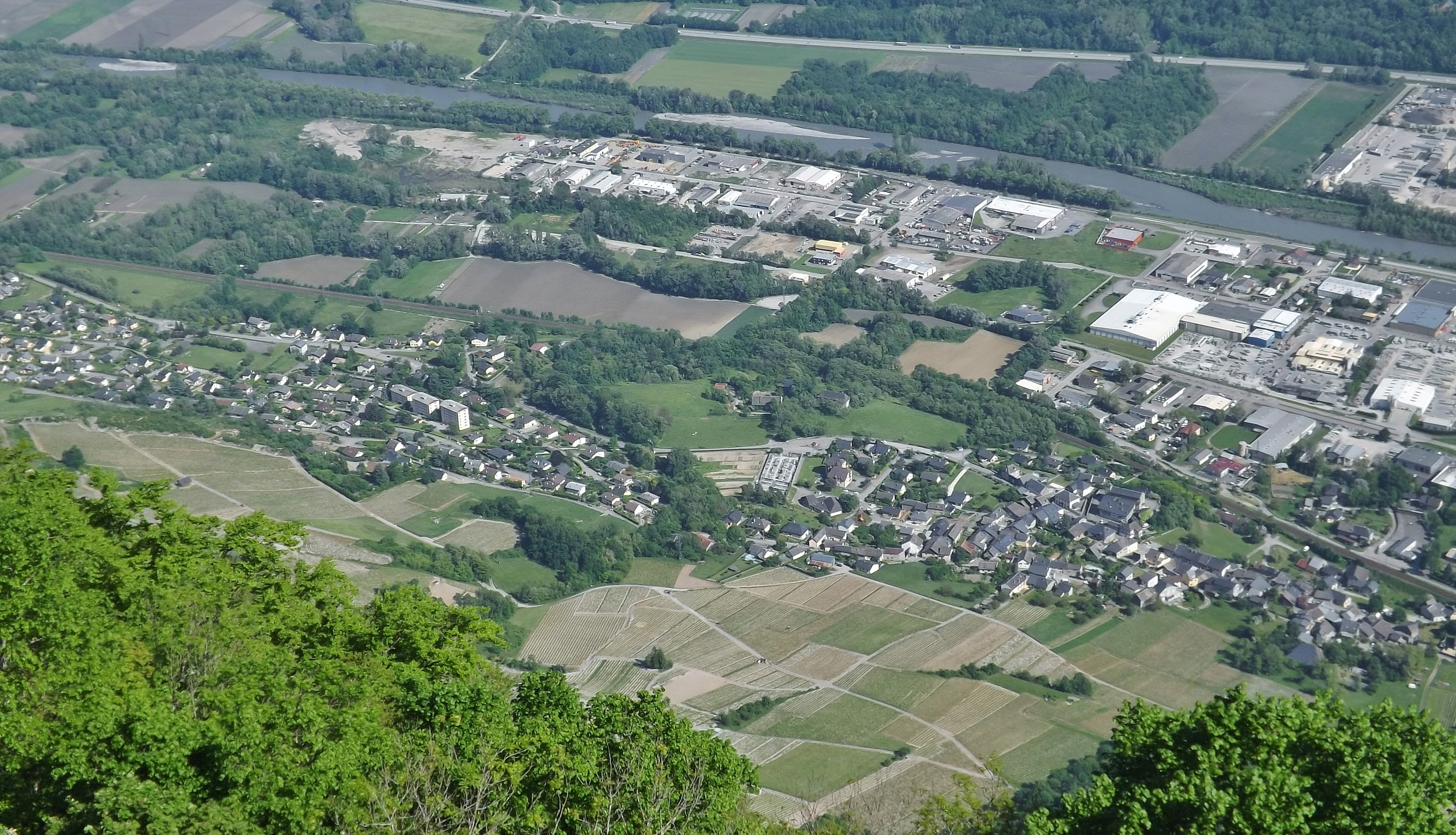 Aerian sight, from the Roche du Guet mount in the Bauges mountain range, of French wine-producing commune of Arbin territory along the Isère river, near Chambéry in Savoie.